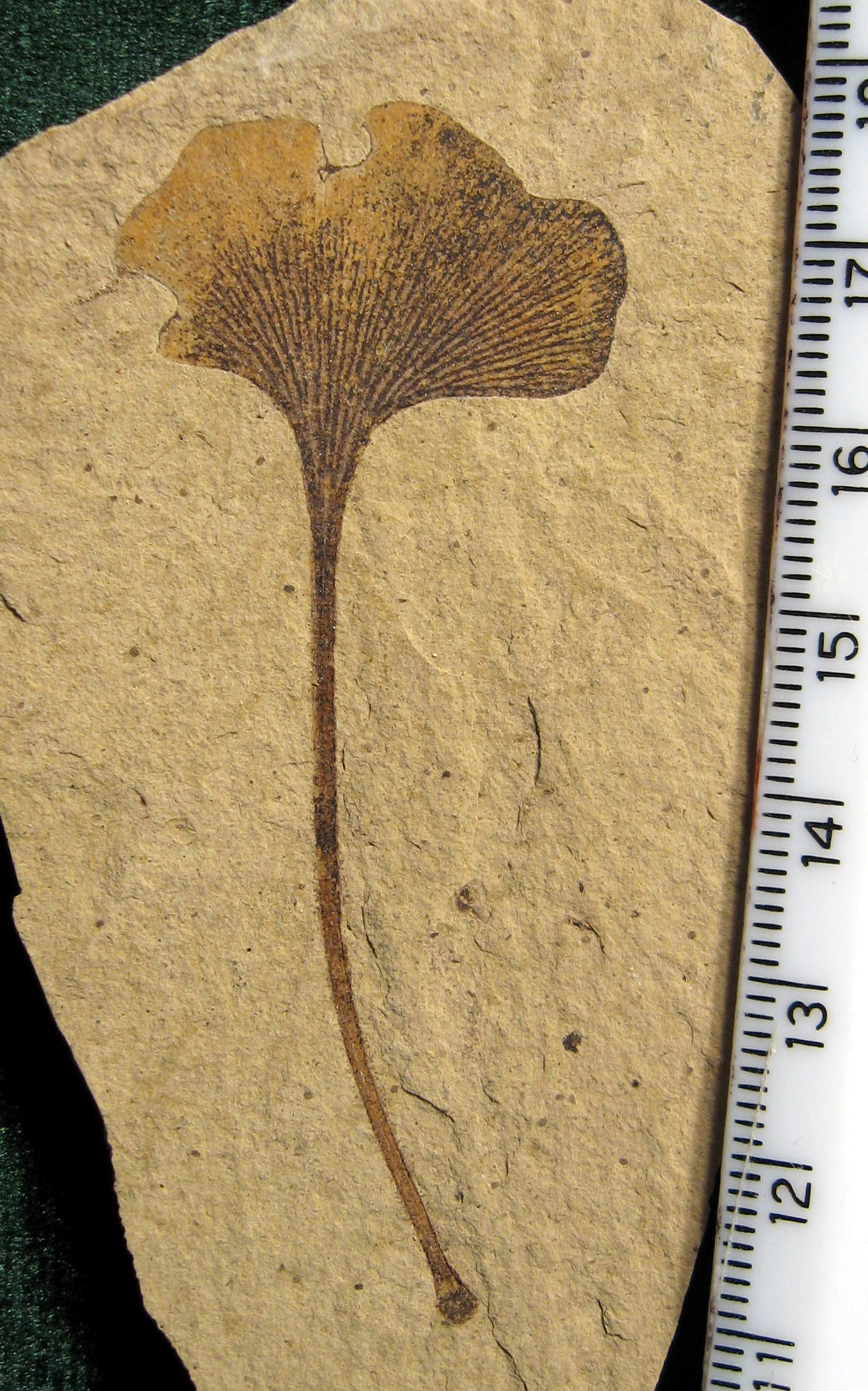 A 6.7cm tall Ginkgo biloba leaf with insect herbivory. Klondike Mountain Formation, Republic, Ferry County, Washington, USA, Eocene, Ypresian, 49 million years old. Stonerose Interpretive Center Collection #